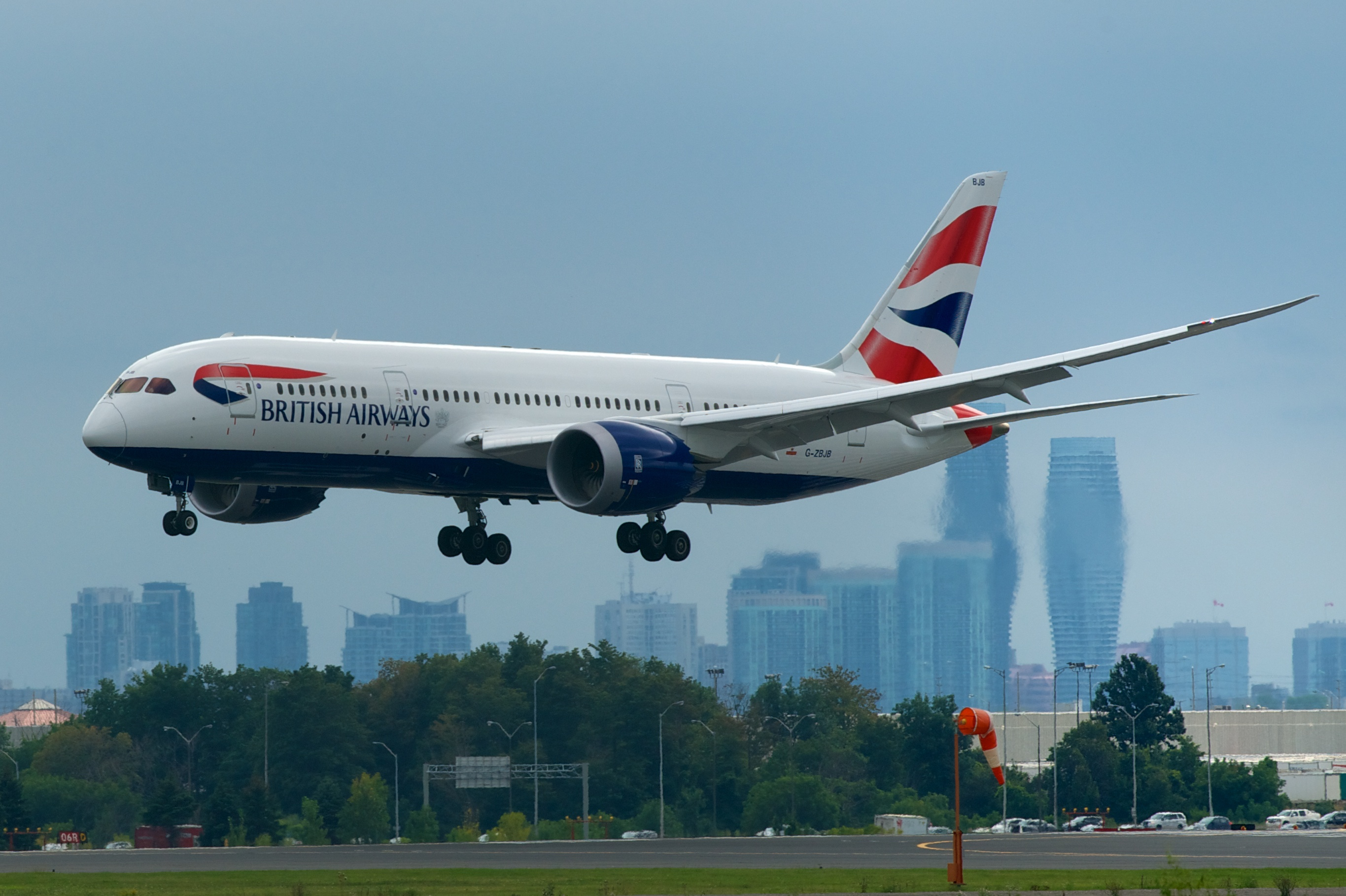 First intercontinental flight of a British Airways Boeing 787-8 about to touch down, Toronto-Pearson Airport with City Centre Mississauga looming in the background.